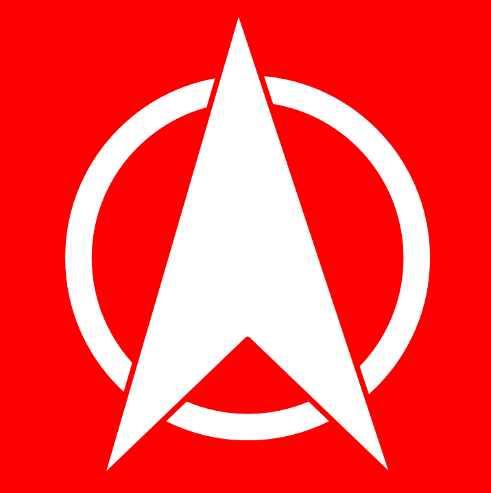 Logo of the Singapore Democratic Party.